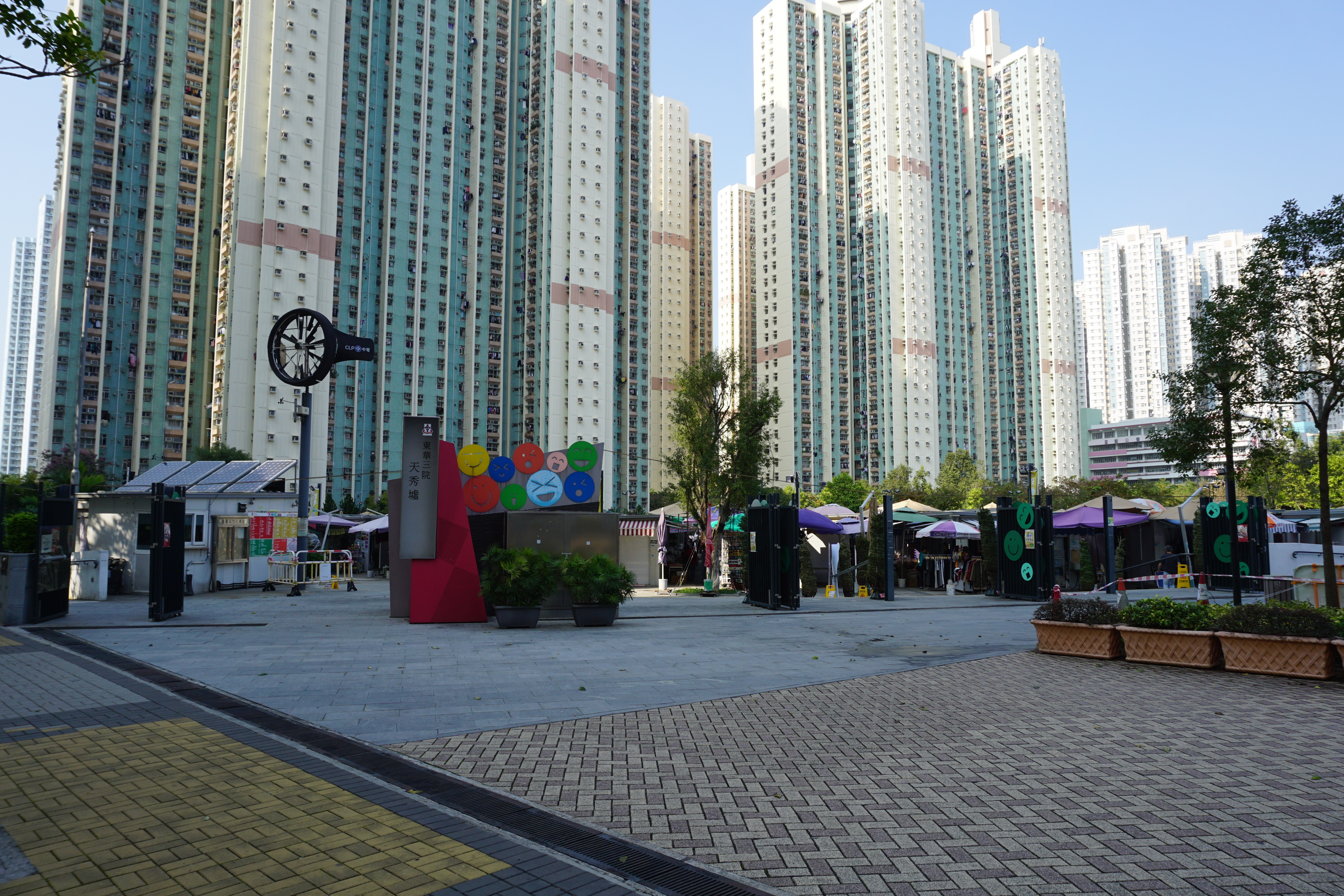 Tung Wah Group Of Hospitals Tin Sau Bazaar in Tin Shui Wai, Hong Kong.